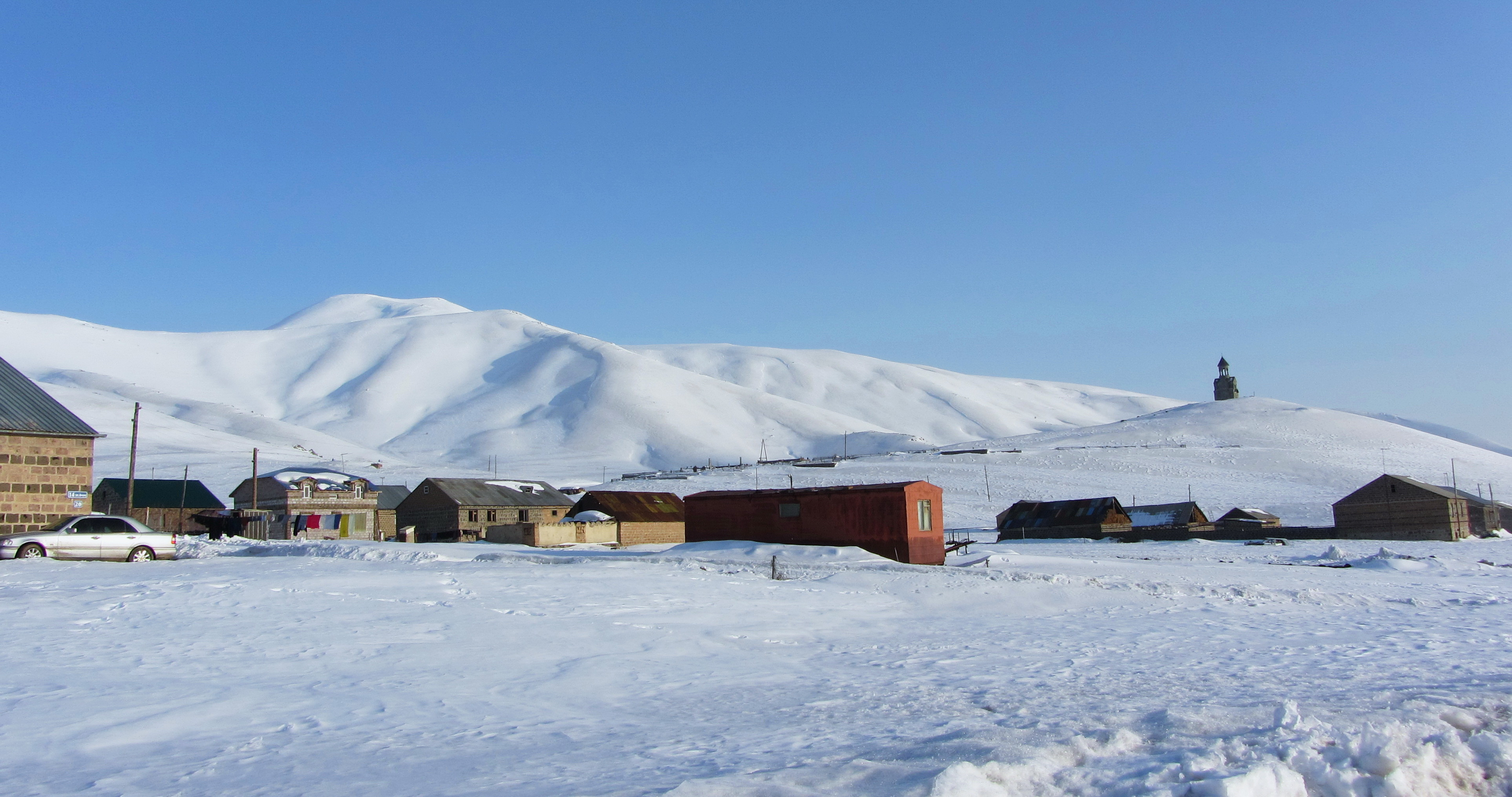 Kaptavank Church, Kaputan, 1349 36/21